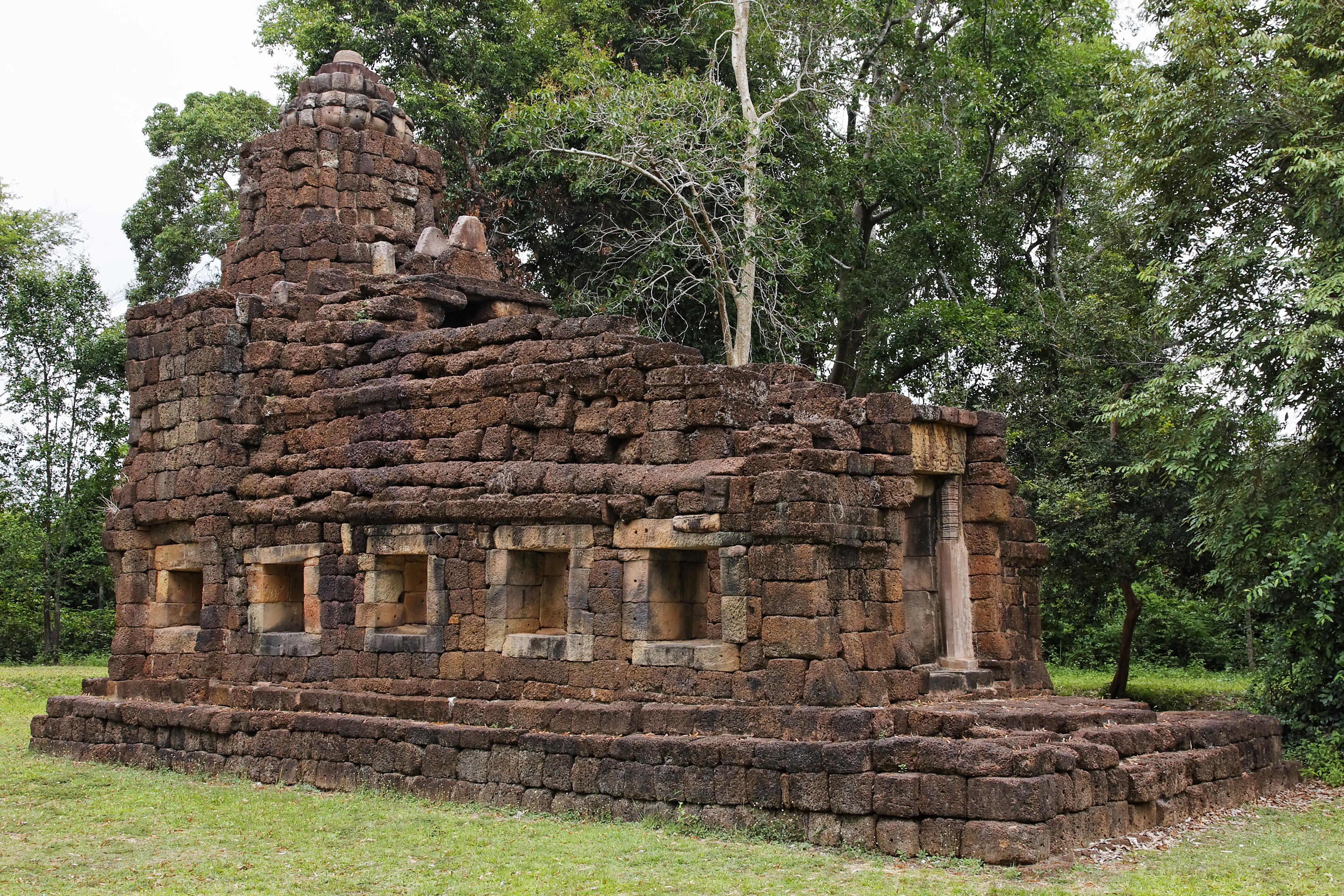 Prasat Ta Muen, Thailand